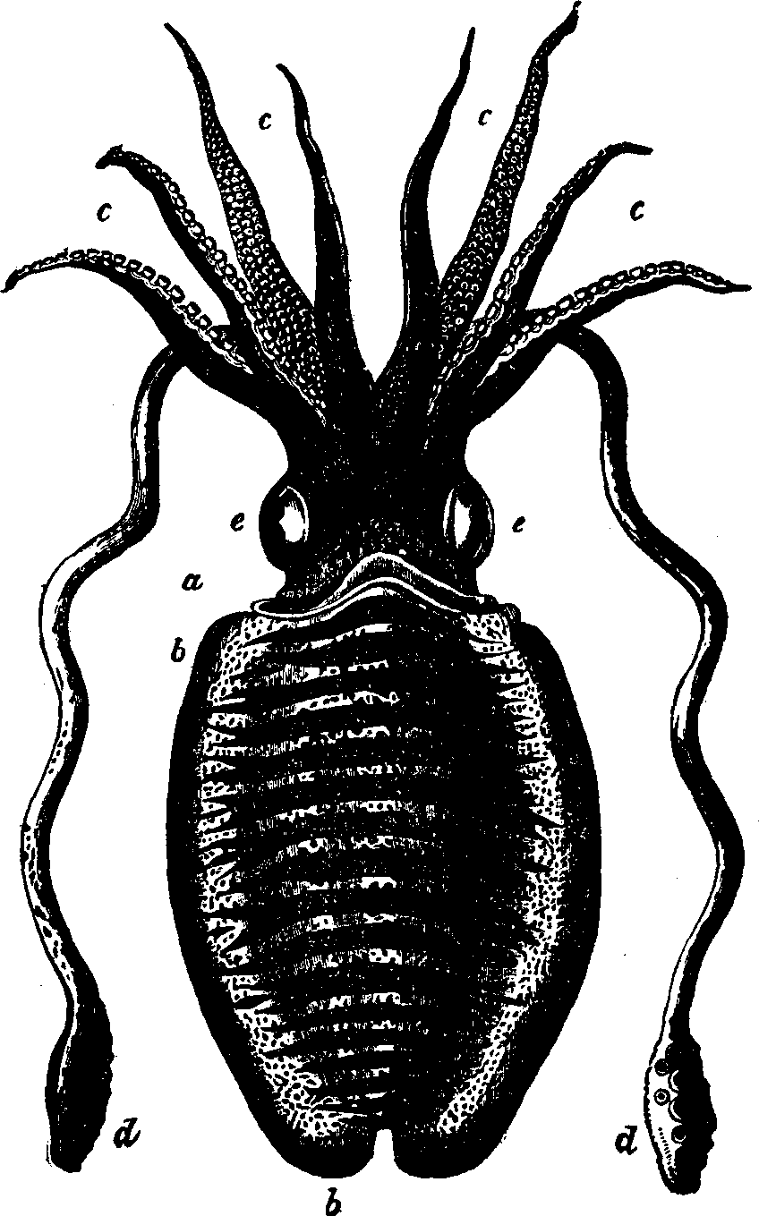 Sepia officinalis Sepia officinalis, L., about 1/2 natural size, as seen when dead, the long prehensile arms being withdrawn from the puches at the side of the head, in which they are carried during life when not actually in use. a, Neck; b, lateral fin of the mantle-sac; c, the eight shorter arms of the fore-foot; d, the two long prehensile arms; e, the eyes.